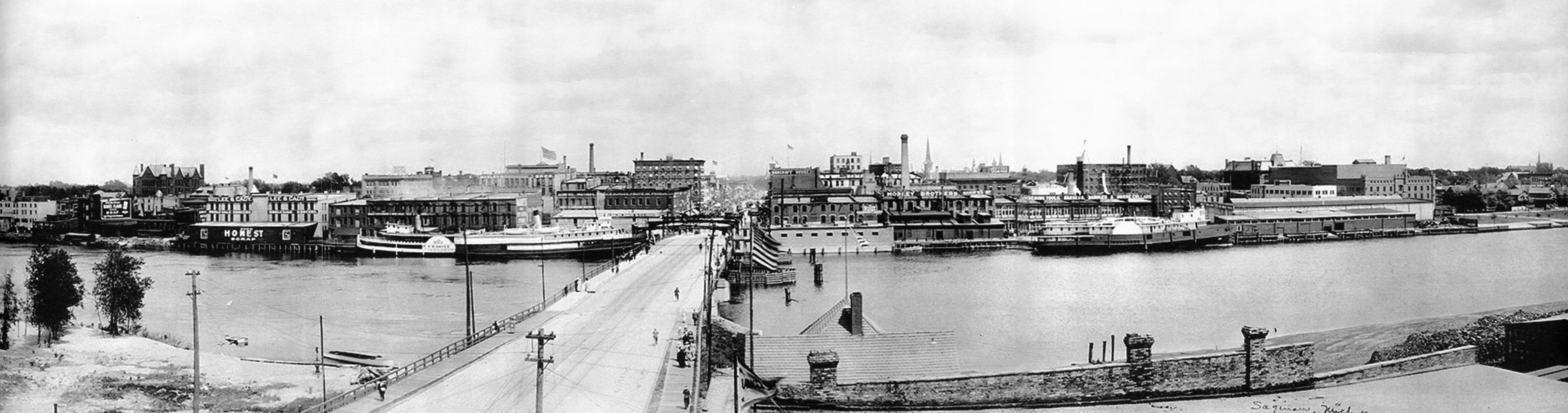 Panorama of downtown Saginaw from west side of river in 1912